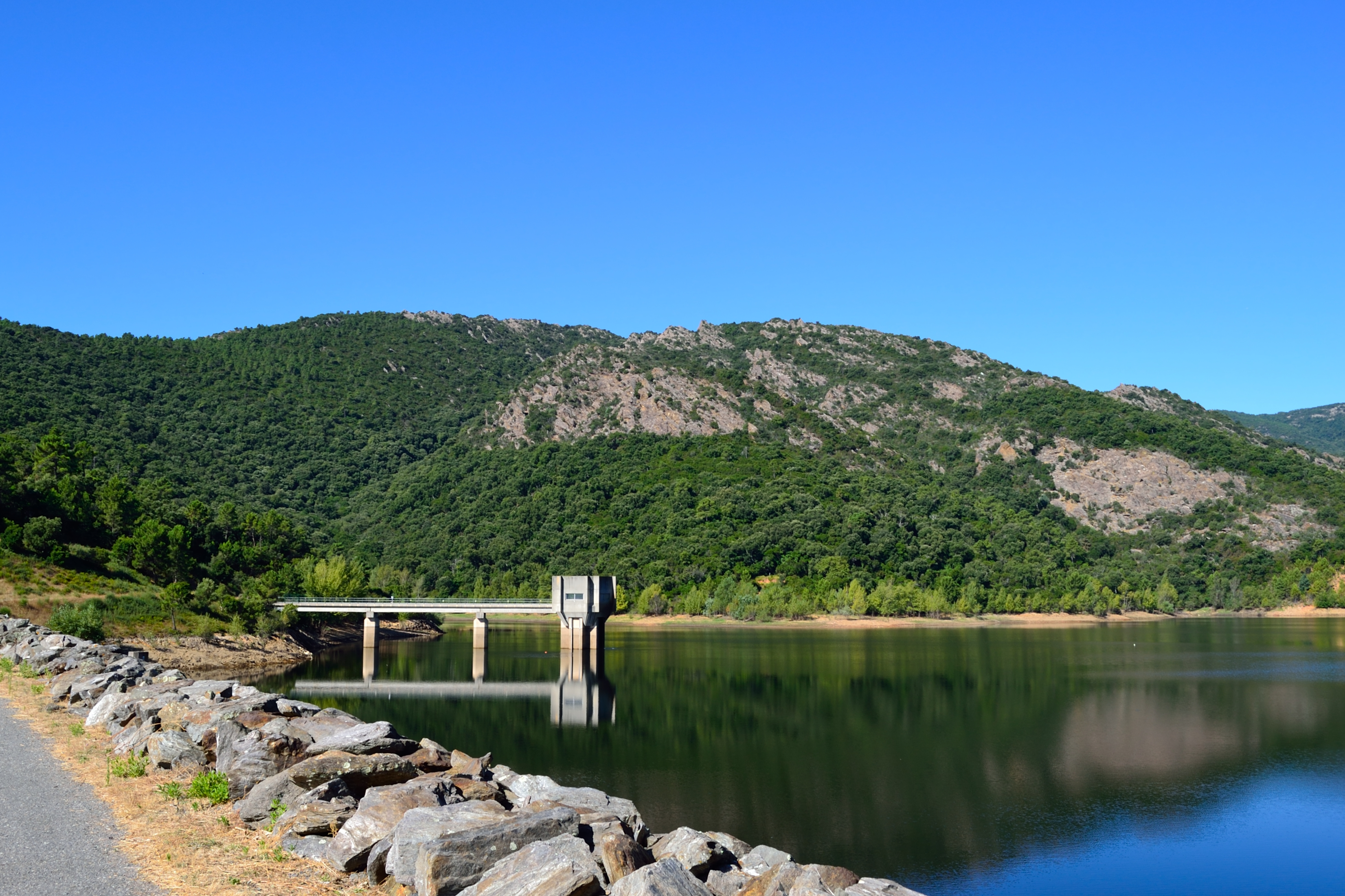 Reservoir of the Verne river in La Môle, France